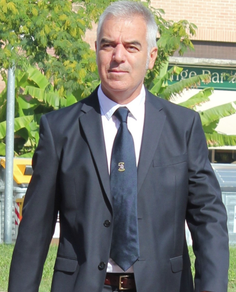 Prof. Claudio Nastruzzi